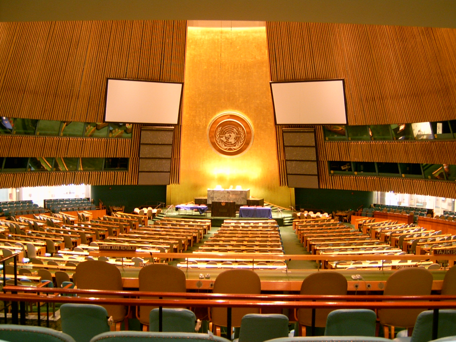 United Nations General Assembly in New York City.